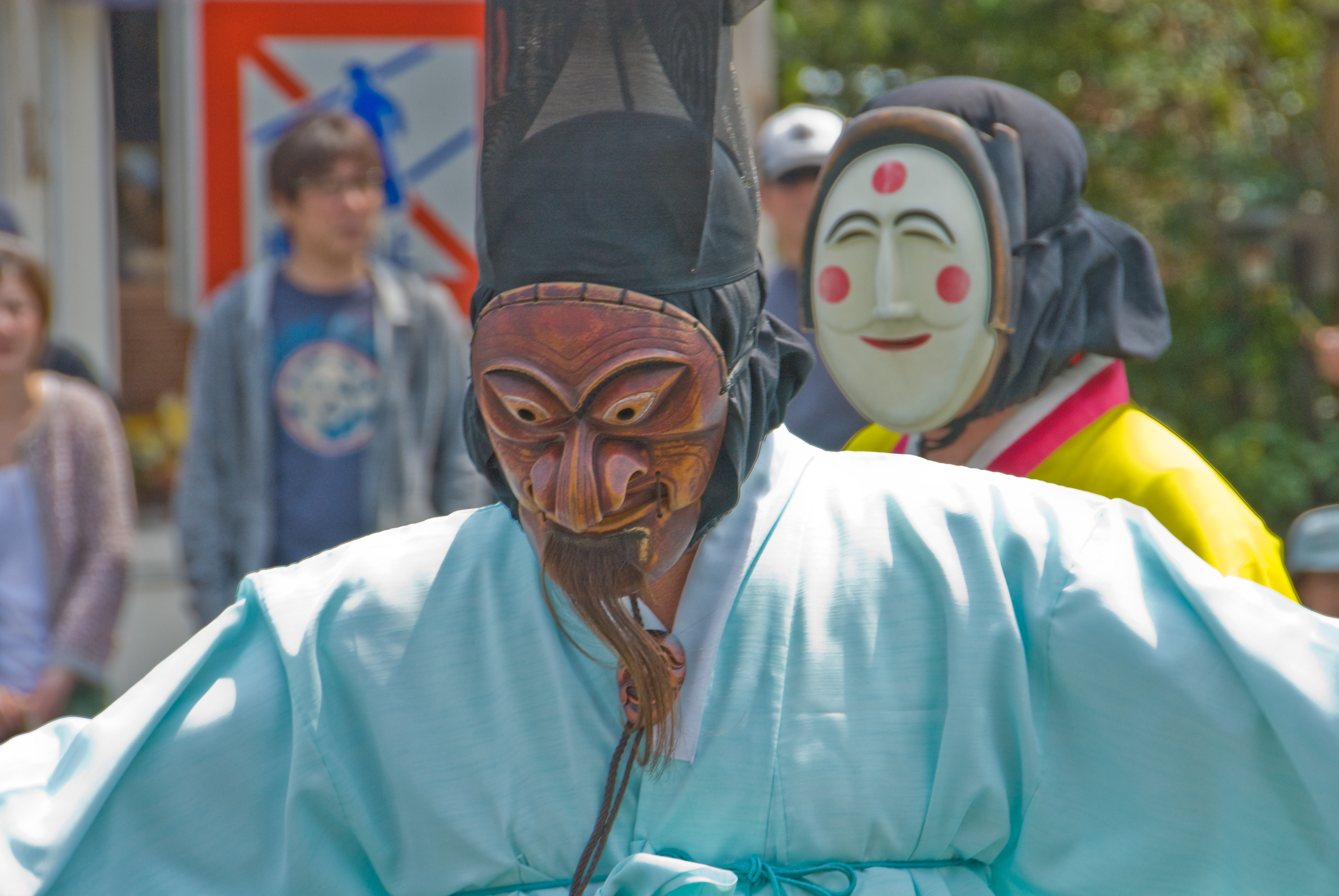 South Korean delegation at the 2009 Kamakura Matsuri